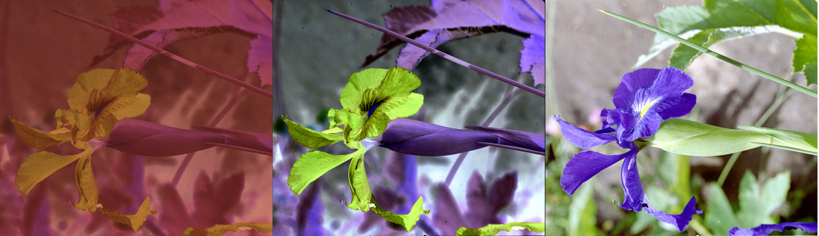 The same image as seen through the negative film, the real negative image once the orange mask removed, and as a positive colour image.